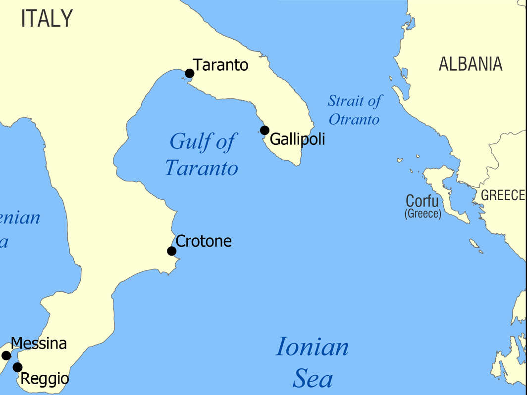 The Gulf of Taranto map, already on this page, has been cropped to bring the Strait of Otranto closer to the center.